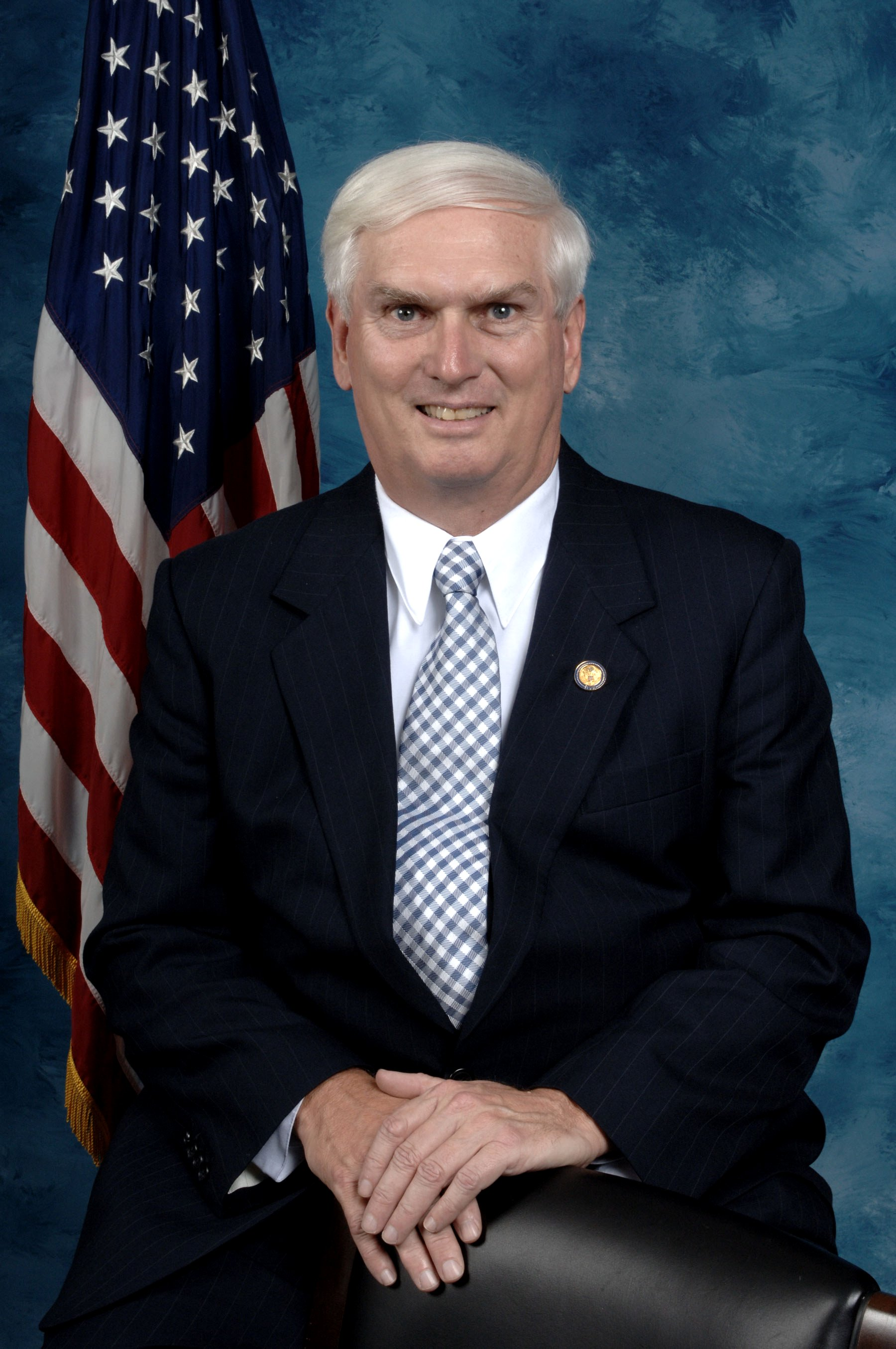 Jimmy Duncan, member of the United States House of Representatives.